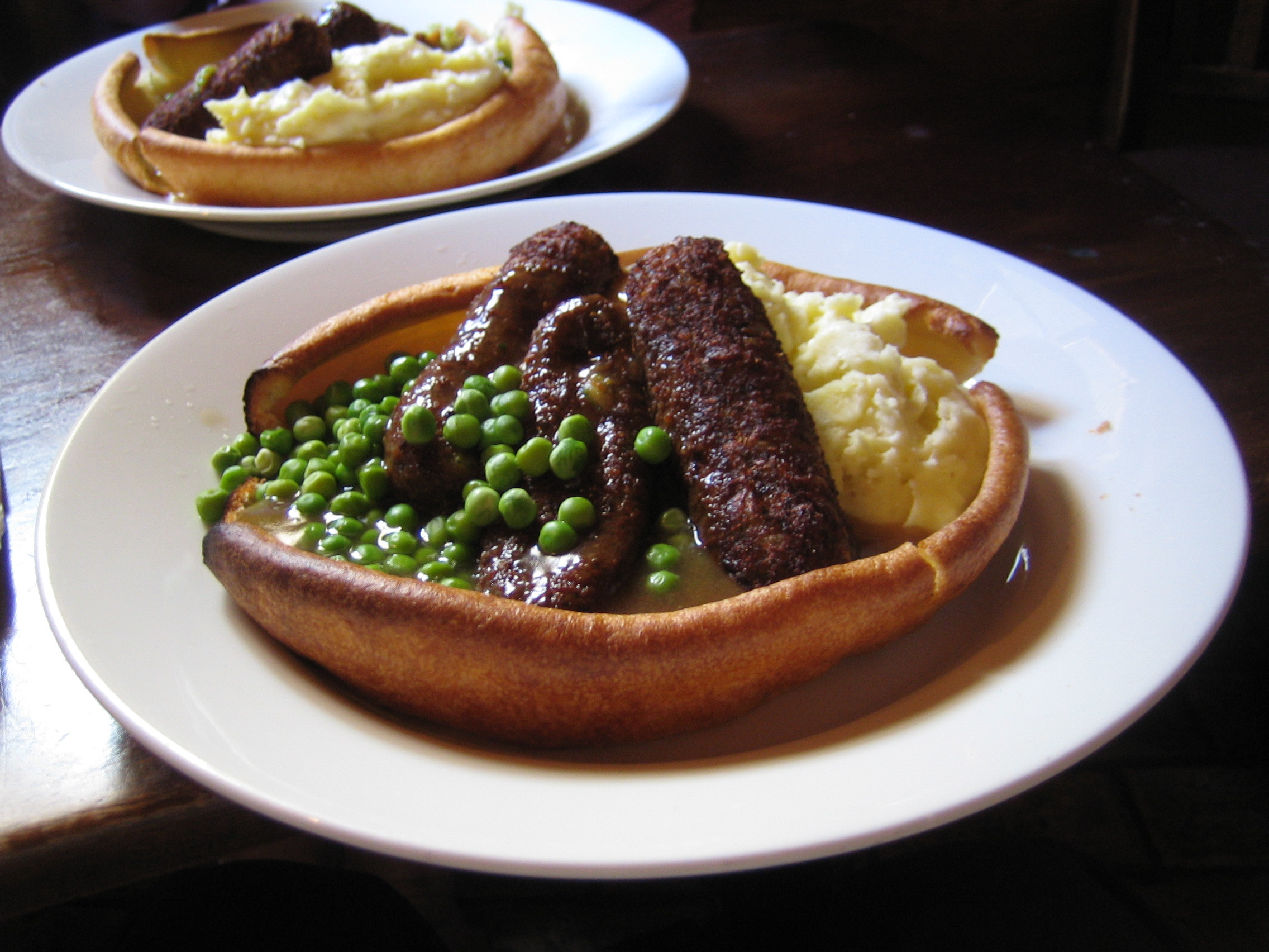 Veggies Sausages and Mashed potatoes, with Yorkshire Pudding, peas and veggie gravy.